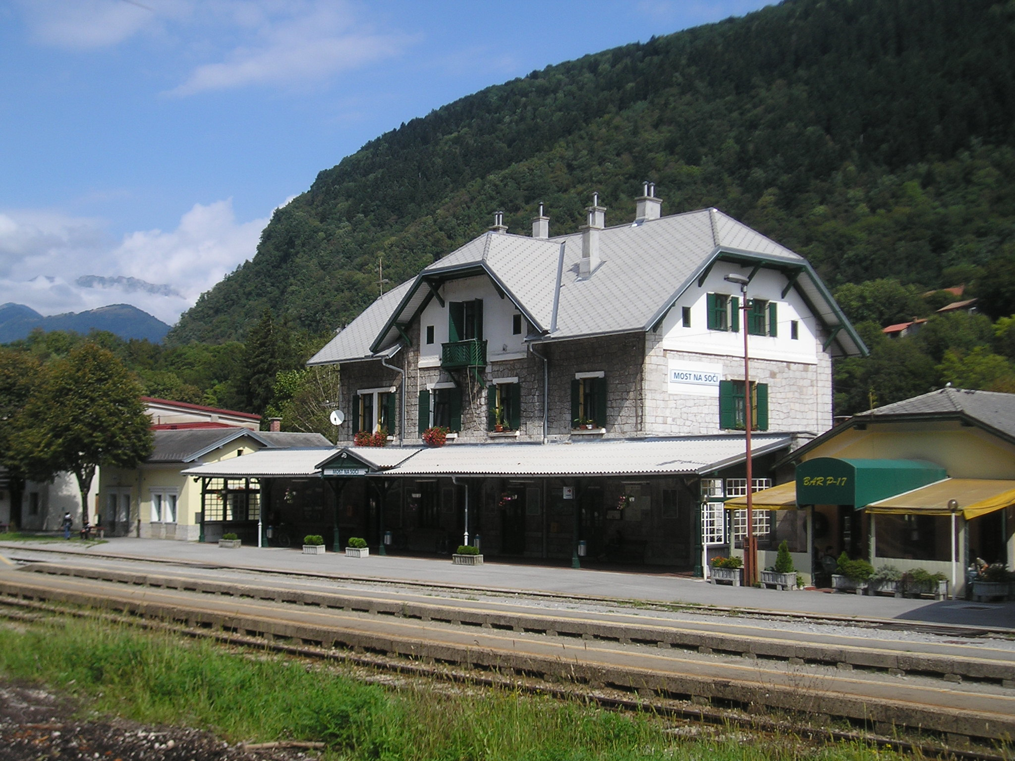 Train station Most na Soči (actually located in the nearby village Postaja) - view from direction of Podbrdo and Jesenice